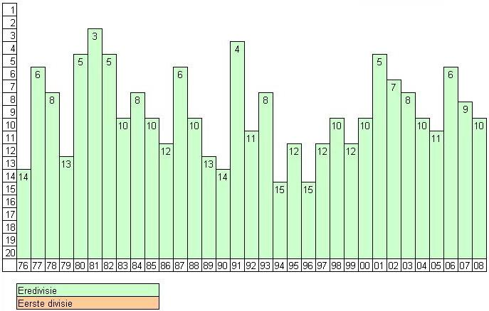 FC Utrecht season results